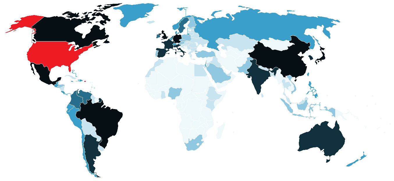 Number of non-immigrant admissions for tourists and business purposes into the United States in fiscal year 2016 United States Over 2 million admissions Over 1 million admissions Over 500 thousand admissions Over 250 thousand admissions Over 100 thousand admissions Over 15 thousand admissions Under 15 thousand admissions